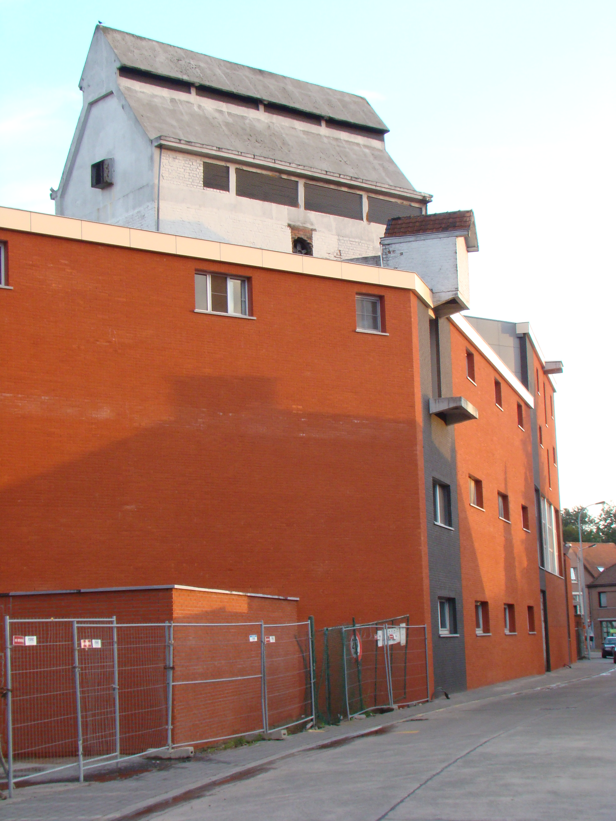 Brouwerij Van Honsebrouck Brewery (Brigand, Kasteelbier) Ingelmunster (West Flanders, Belgium)